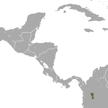 Colombian Small-eared Shrew (Cryptotis colombiana) range